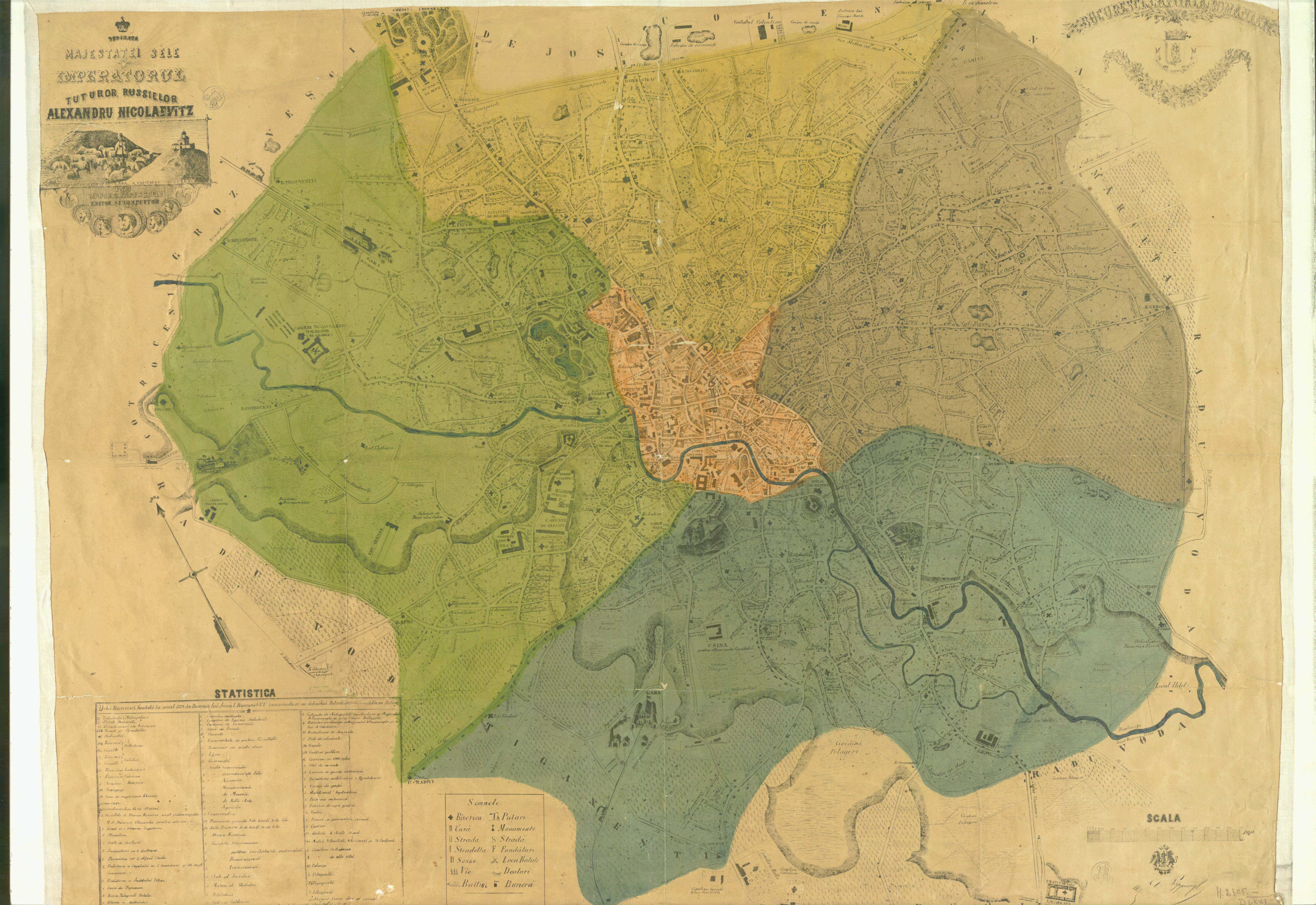 Map of Bucharest